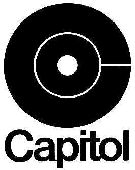 Logo of Capitol Records